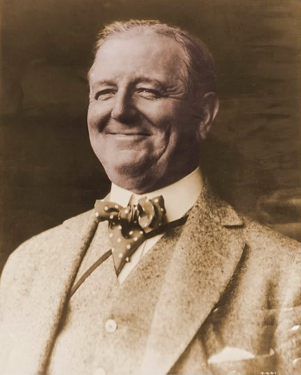 Charles Comiskey